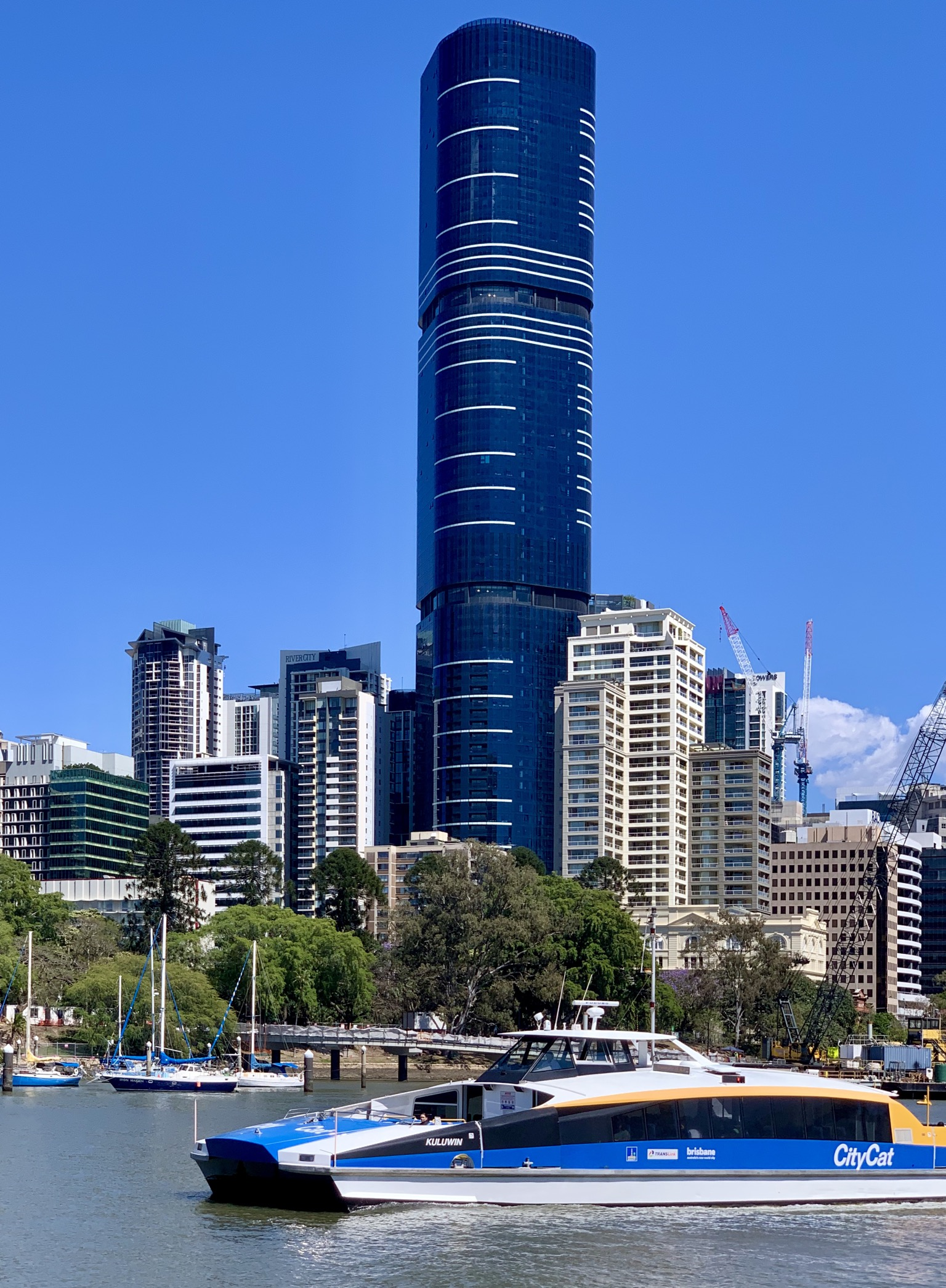 Brisbane Skytower, Skylines in Brisbane, November 2019